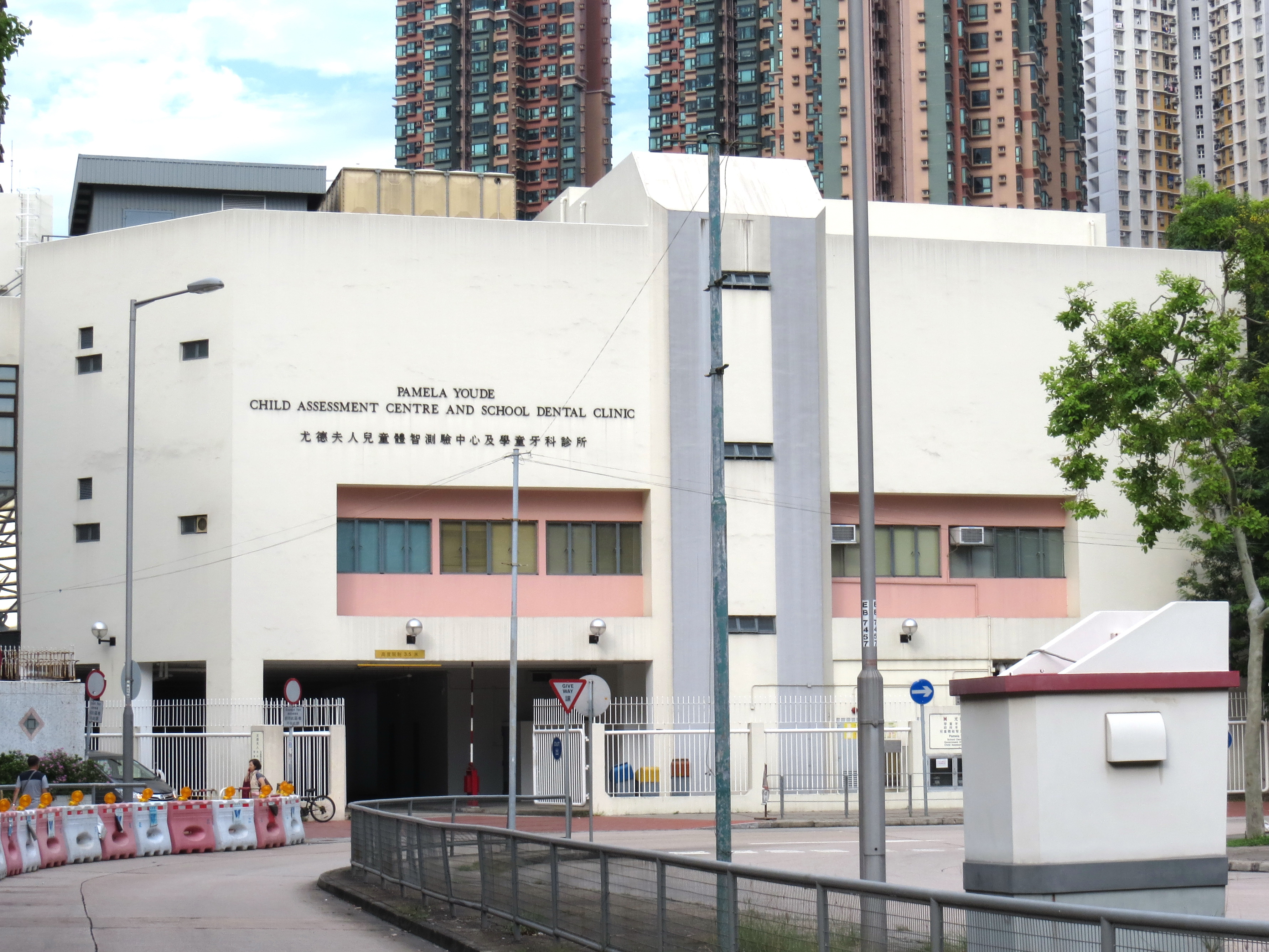 Pamela Youde Child Assessment Centre and School Dental Clinic, Sha Tin, New Territories, Hong Kong.